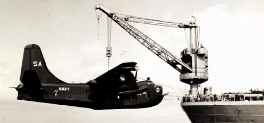 A U.S. Navy Martin P5M-1 Marlin of patrol squadron VP-42 is hoisted on the seaplane tender USS Salisbury Sound (AV-13) at Buckner Bay, Okinawa (Japan), in February 1955.